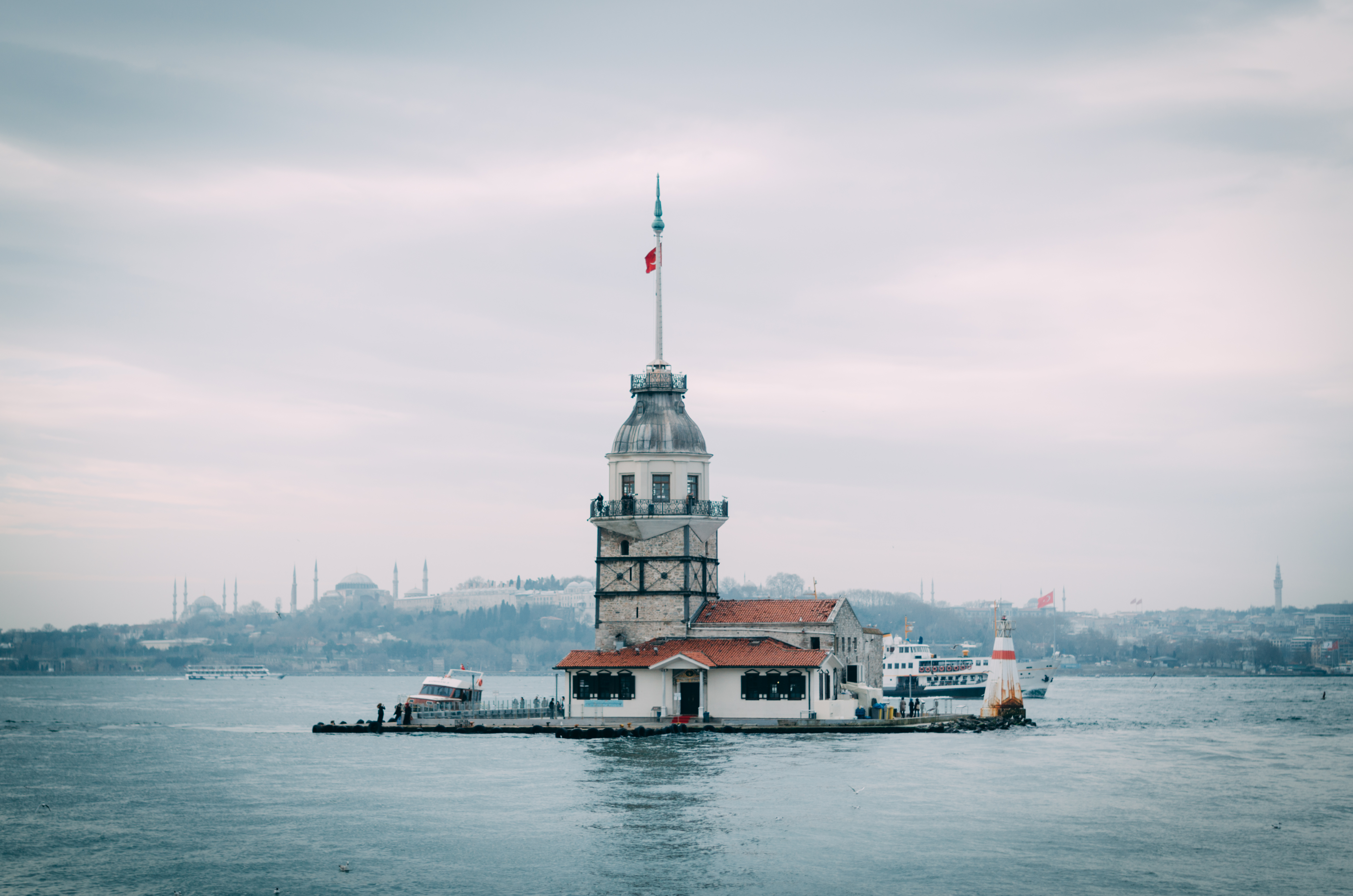 Maidens Tower, Bosphorus, Turkey.